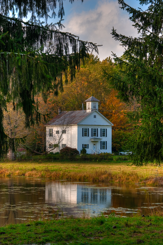 Once the Gibson schoolhouse